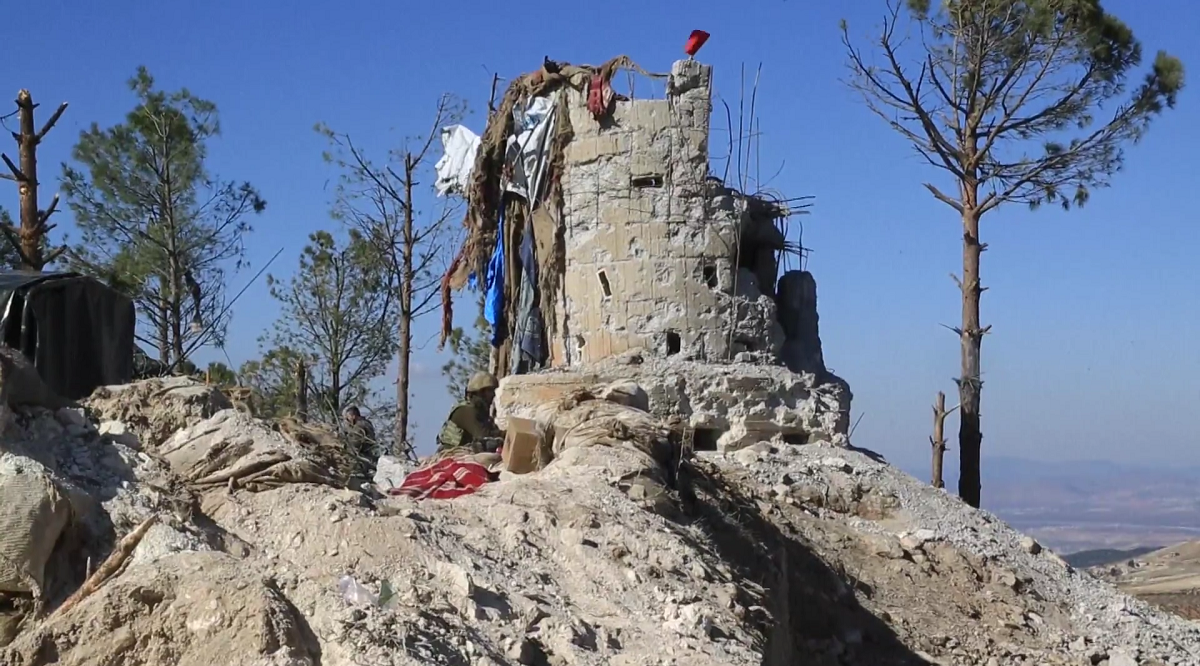 Turkish soldiers rest amid a captured SDF position on Barsaya mountain.